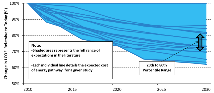 Projected range of wind power levelized cost of electricity across 18 NREL scenarios